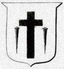 arms of scottish diocese (Dunkeld)